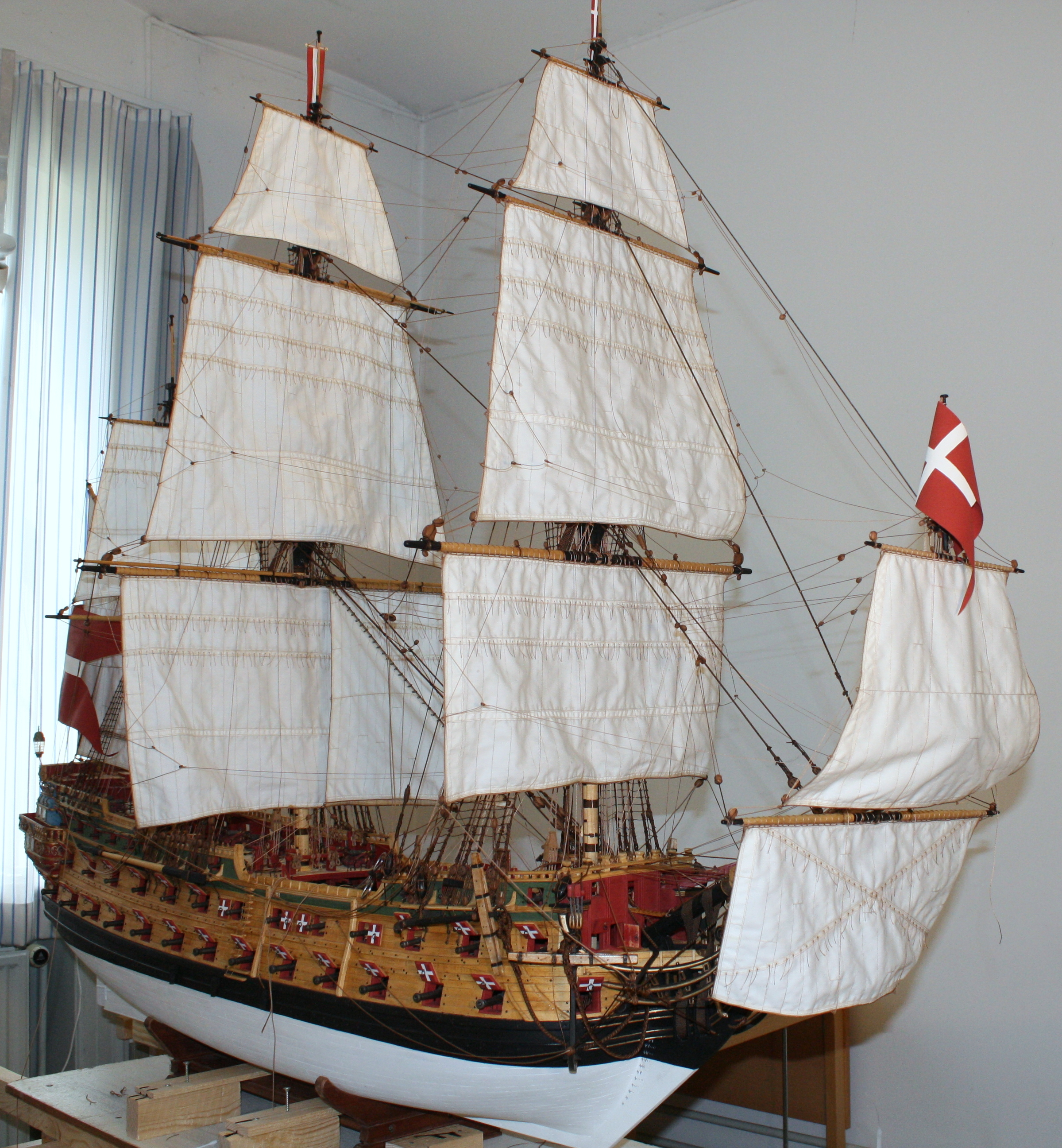 Side view of the Dannebroge, skewed forward.